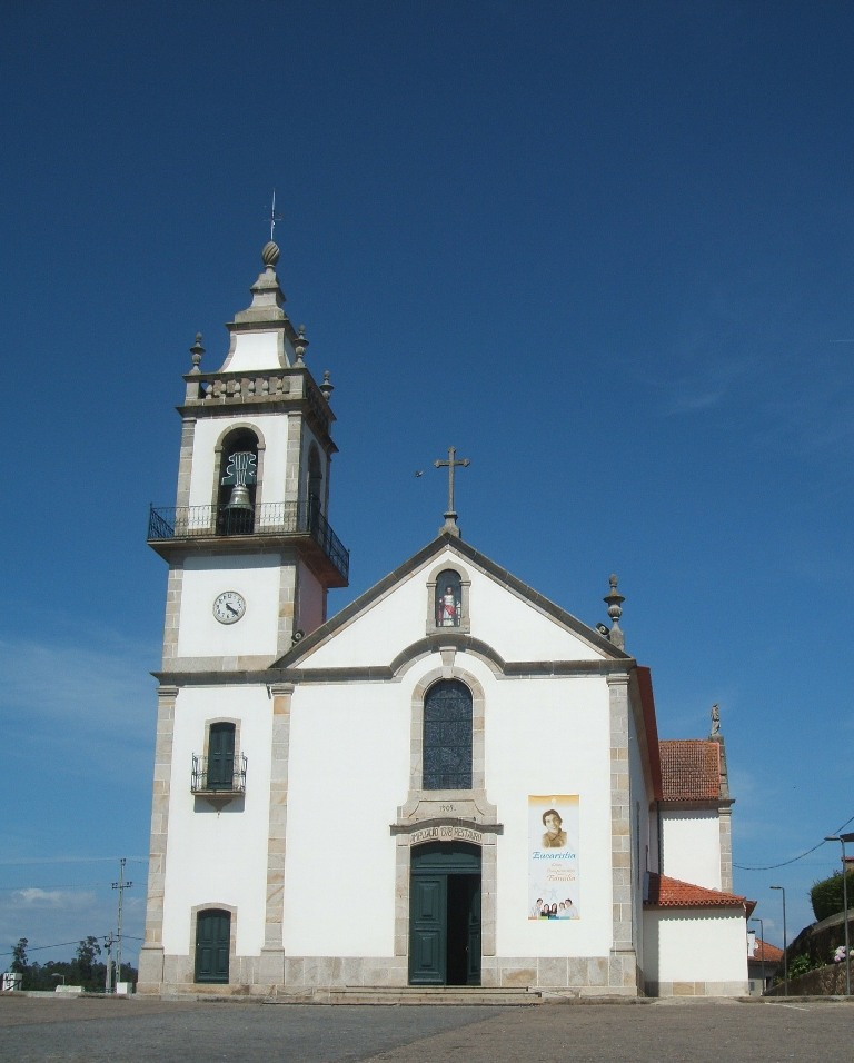 Church of Balasar